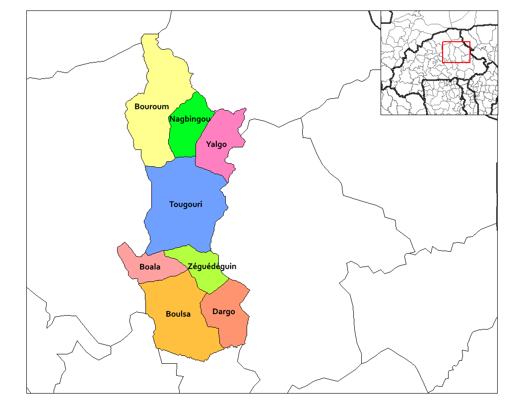 This map has been uploaded by Osiris fancy from to enable the Wikimedia Atlas of the World. Original uploader to was Rarelibra. Osiris fancy is not the creator of this map. Licensing information is below. Map of the departments of Namentenga province in Burkina Faso. Created by Rarelibra 03:29, 30 September 2006 (UTC) for public domain use, using MapInfo Professional v8.5 and various mapping resources.